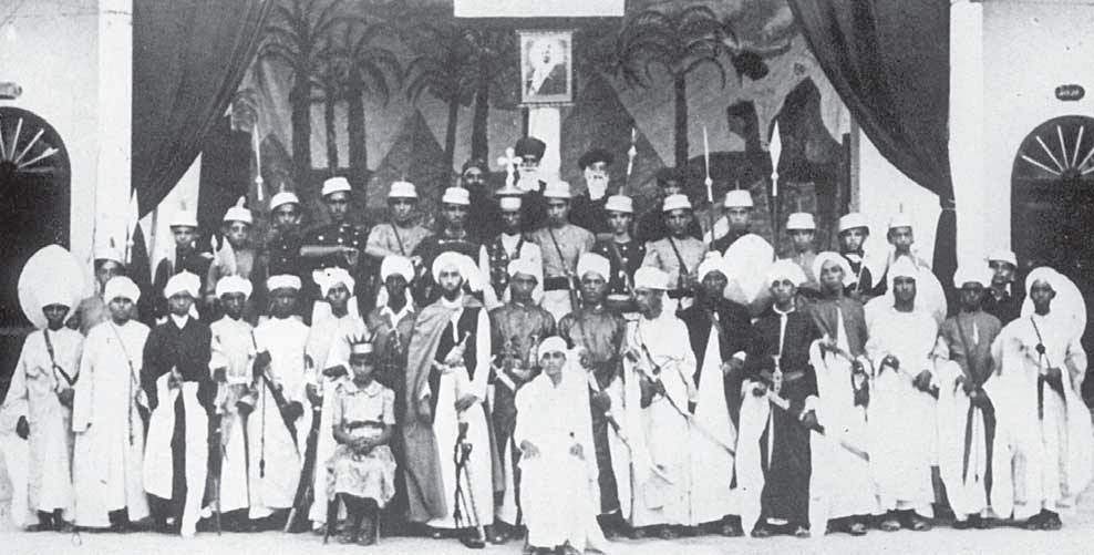 The "fateh Masr" play in Mubarkiya school